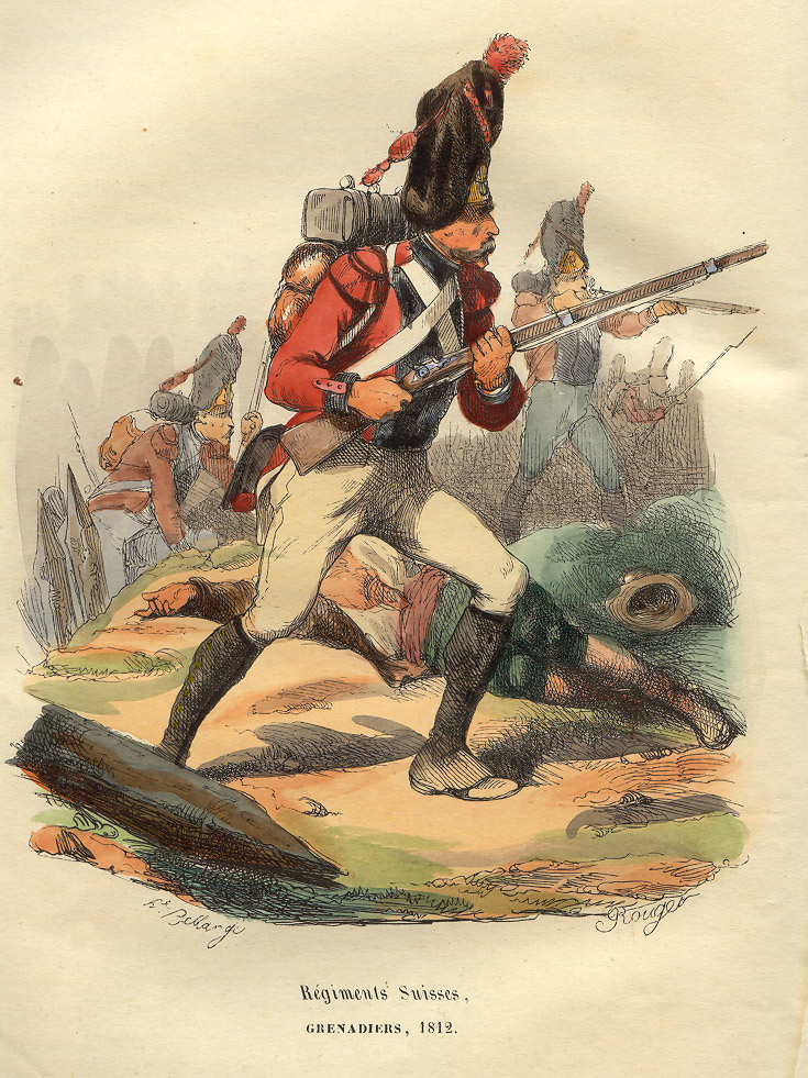 Swiss grenadiers from Napoleon troops (3-d regiment). From book of P.-M. Laurent de L`Ardeche «Histoire de Napoleon», 1843